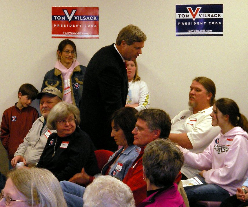 Former Iowa Gov. Tom Vilsack, a Democrat, at a campaign event in Winterset on Feb. 19, 2007.